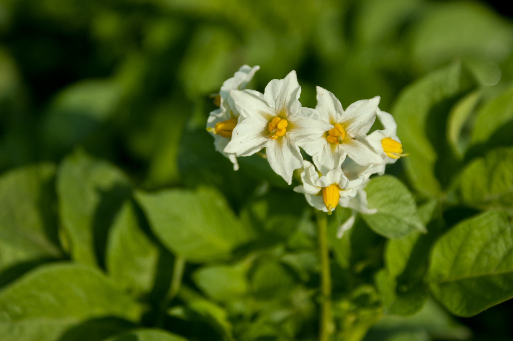 Flower of Potato plant..